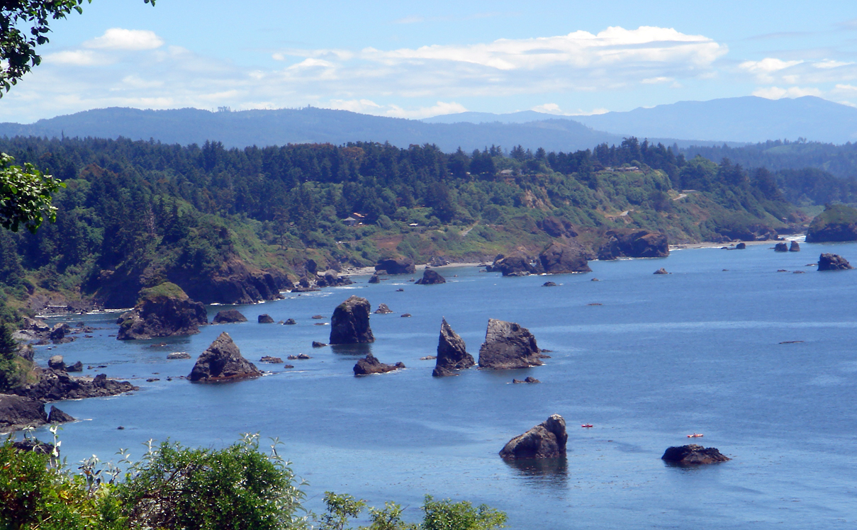 Trinidad, California - southern coastline from town, overlooking Trinidad Bay with offshore rocks (California Coastal National Monument CCNM)